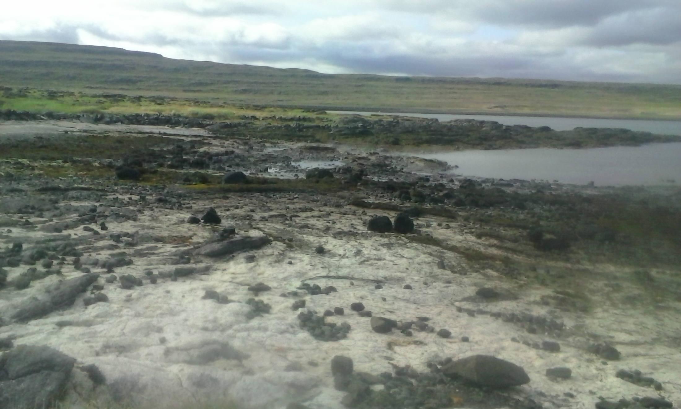 High temperature area of Reykjanes, Ísafjarðardjúp, Westfjords of Iceland